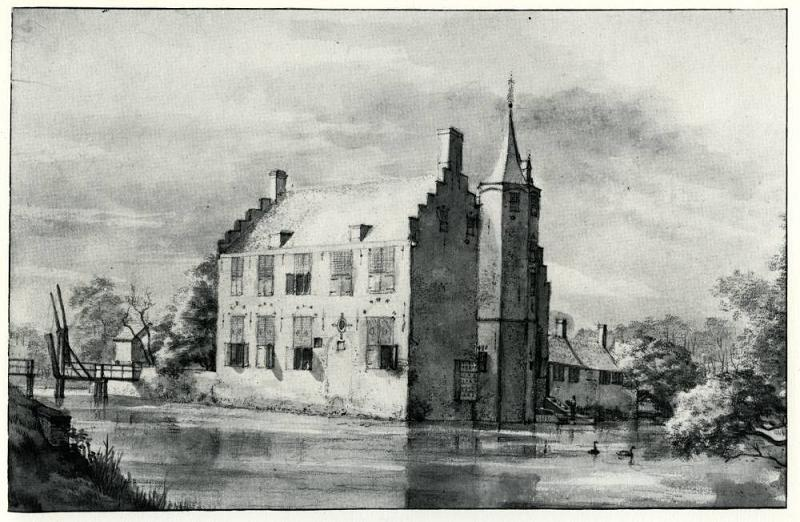 The Altena-Castle in the Netherlands.